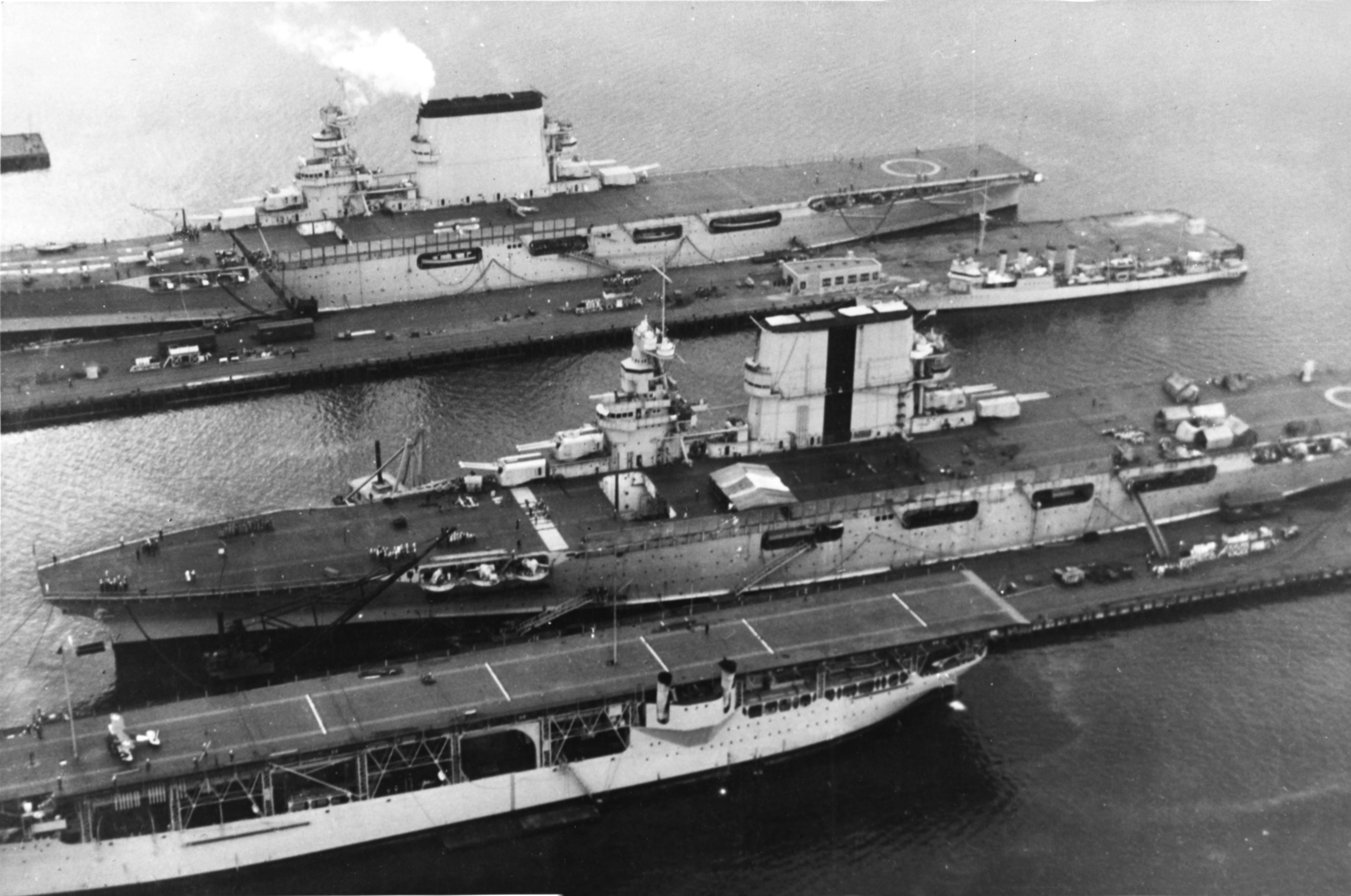 The U.S. Navy aircraft carriers USS Langley (CV-1), USS Saratoga (CV-3) and USS Lexington (CV-2) docked at the Puget Sound Naval Shipyard, Bremerton, Washington (USA), circa 1930.